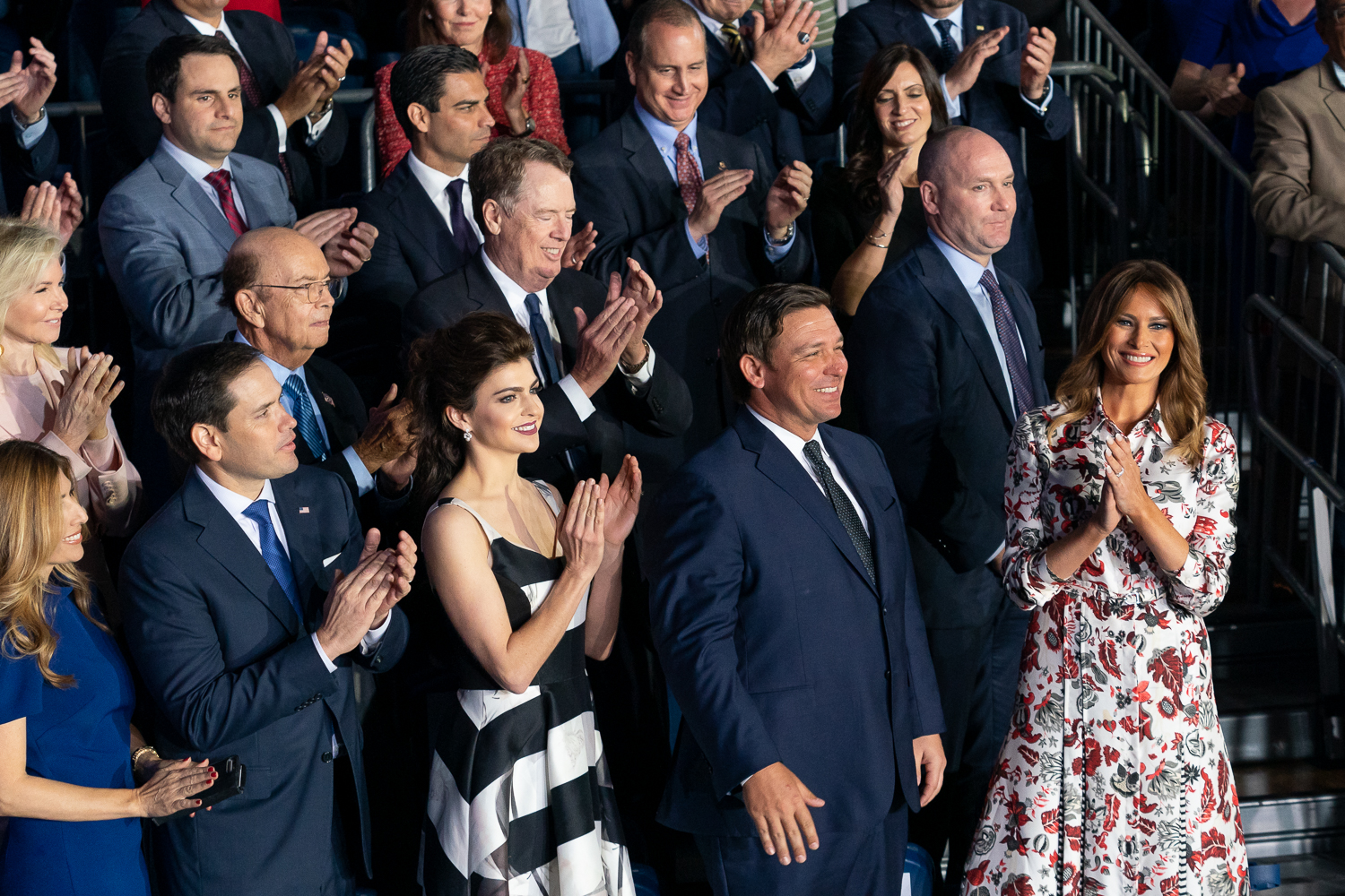 First Lady Melania Trump applauds Florida Governor Ron DeSantis during an event with the Venezuelan American community Monday, Feb. 18, 2019, at the Florida International University Ocean Bank Convocation Center in Miami. The First Lady is joined in the front row by Mrs. Jeanette Rubio; Senator Marco Rubio (R-FL); and Mrs. Casey DeSantis. Second row guests include Mrs. Hilary Geary, wife of Secretary Ross; Secretary of Commerce Wilbur Ross; and U.S. Trade Representative Ambassador Robert Lighthizer. (Official White House Photo by Andrea Hanks)